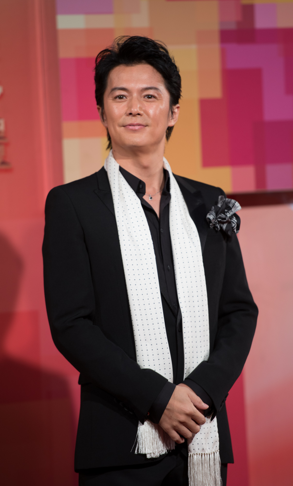 Fukuyama Masaharu at the 24th Golden Melody Awards held at Taipei, Taiwan on July 6, 2013 (Cropped).